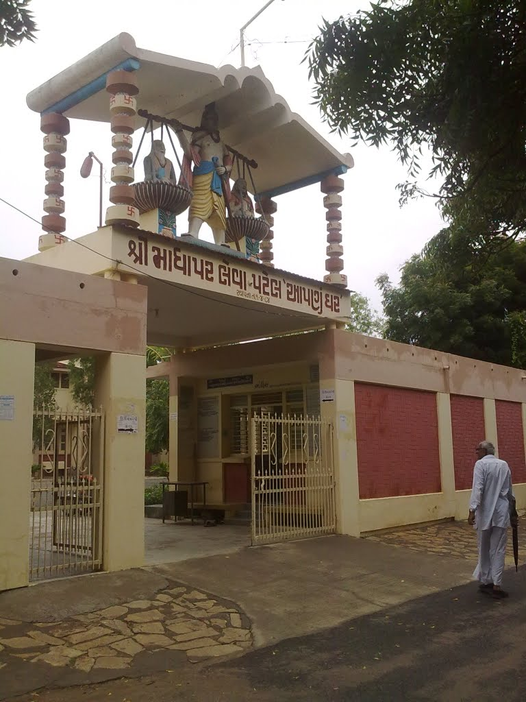 Old age home - Apna Ghar